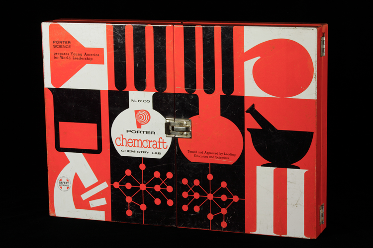 Porter Chemcraft Senior Set No. 6105, Hagerstown, Maryland, United States, 1957 Red steel case that opens in the front to reveal four compartments; on the front is a design with red, black and white images of various chemical apparatus; the front has an aluminum clasp closure; the first compartment (left) has a cardboard insert with places to hold a manual; the second section has a blue plastic insert with spaces for (right to left top to bottom) a plastic measuring cup, a box of red litmus paper, a wax candle, a test tube brush, a pair of test tube tongs, an alcohol lamp, a box of blue litmus paper, and glass chemical bottles; the third compartment has a blue plastic insert with spaces for (right to left top to bottom) glass chemical bottles and a small balance; the fourth compartment (right) has spaces for (right to left top to bottom) a box of flame test wires, a box of weights, an aluminum spoon, a booklet, and a steel test tube rack with four empty test tubes and three glass stirrers; chemicals include calcium hypochlorite, ferric ammonium sulfate, ammonium chloride, azurite, sulfur, tannic acid, sodium ferrocyanide, manganese sulfate, strontium chloride, sodium bisulfate, logwood, calcium oxide, sodium thiosulfate, cobalt chloride, trisodium phosphate, sodium borate, sodium carbonate, aluminum sulfate.